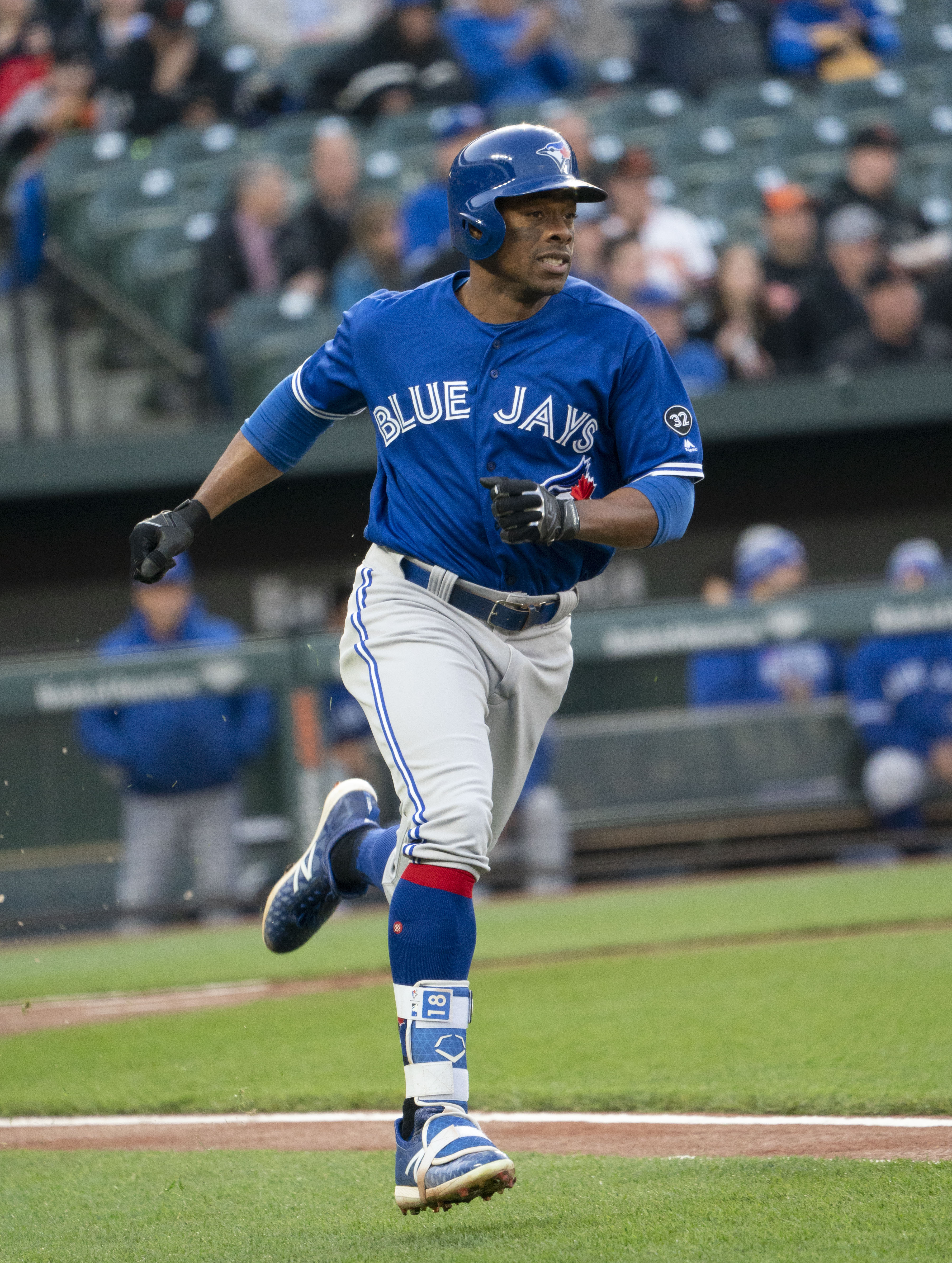 Curtis Granderson with the Toronto Blue Jays on April 11, 2018.